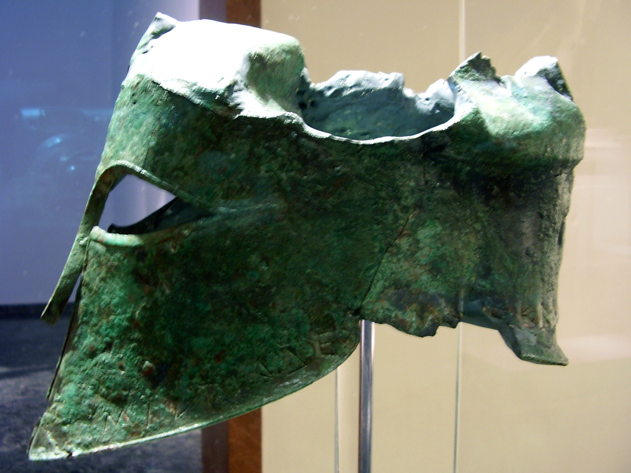 This helmet was given as a sacrifice to the temple of Zeus at Olympia by the great Athenian general Miltiades, who engineered the Athenian victory over the Persians at Marathon.